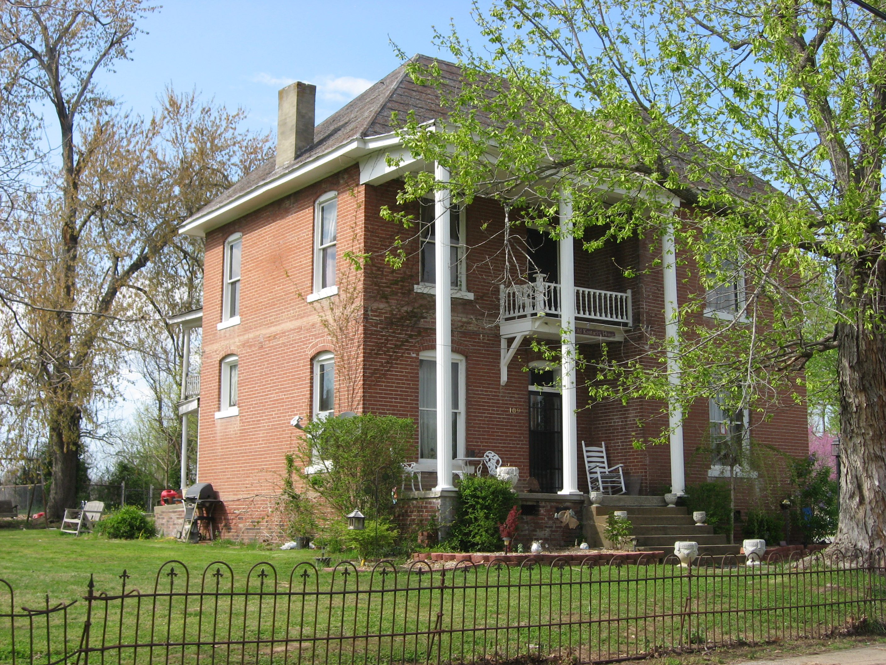 Front and southwestern side of the W.W. Kington House, located at 109 Crooked Street in Mortons Gap, Kentucky, United States. Built in 1911, it is listed on the National Register of Historic Places.